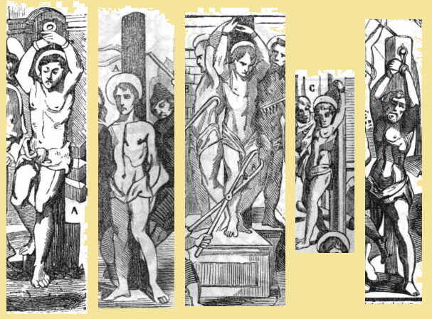 Images of Christian martyrs tortured (not executed) at poles or pillars, in Migne's Patrologia Latina, vol. 60.